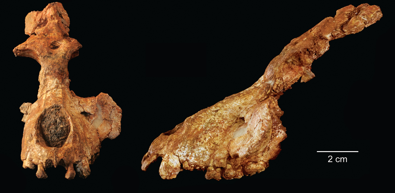 Press release photo of Saadanius hijazensis (holotype SGS-UM 2009-002) from Saudi Arabia.